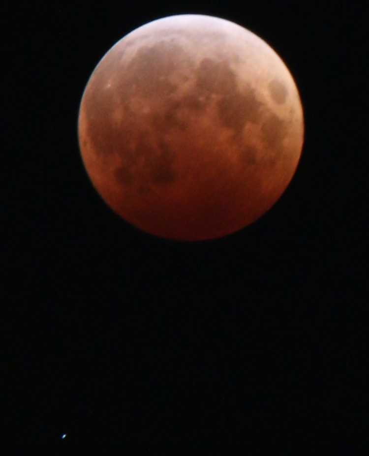 October_2014_lunar_eclipse, Cropped, and rotated North up. Planet Uranus is on the bottom left